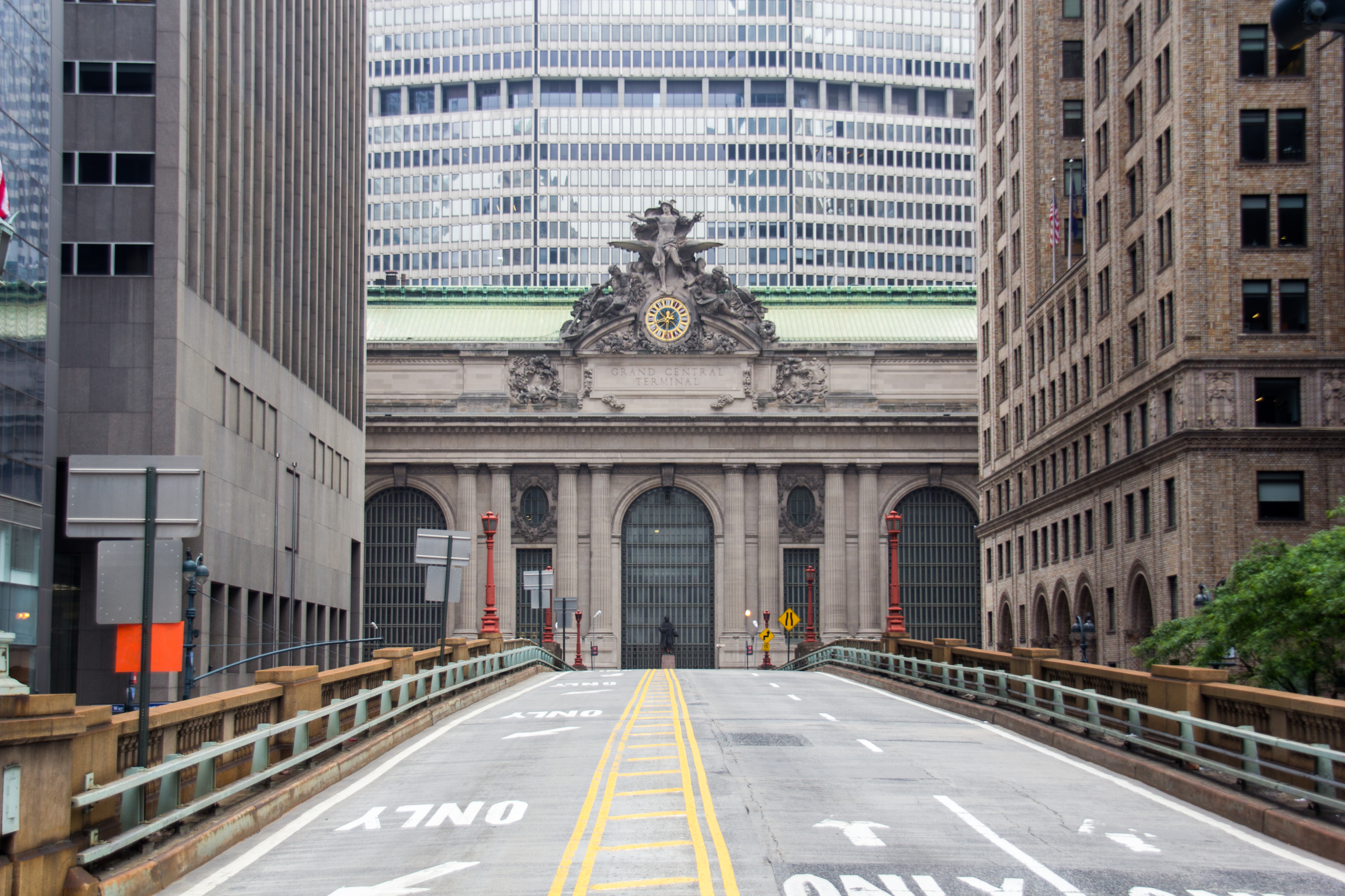 Manhatten, New York City